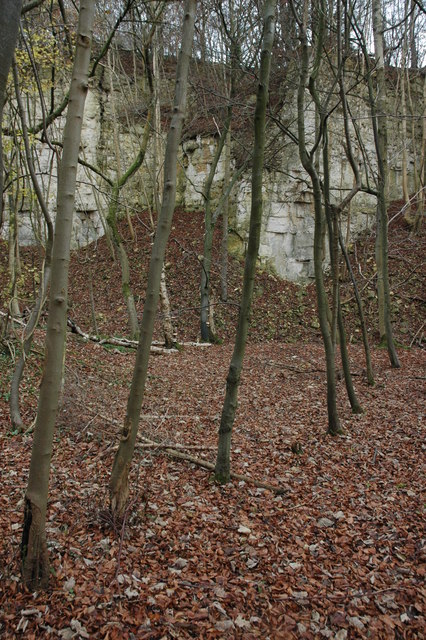 Disused quarry, Birdlip Hill Old disused quarry beside the Cotswold Way on Birdlip Hill. Young beech trees are now growing in the quarry